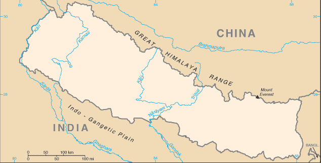 Map of Nepal from CIA blanked by Bemoeial2